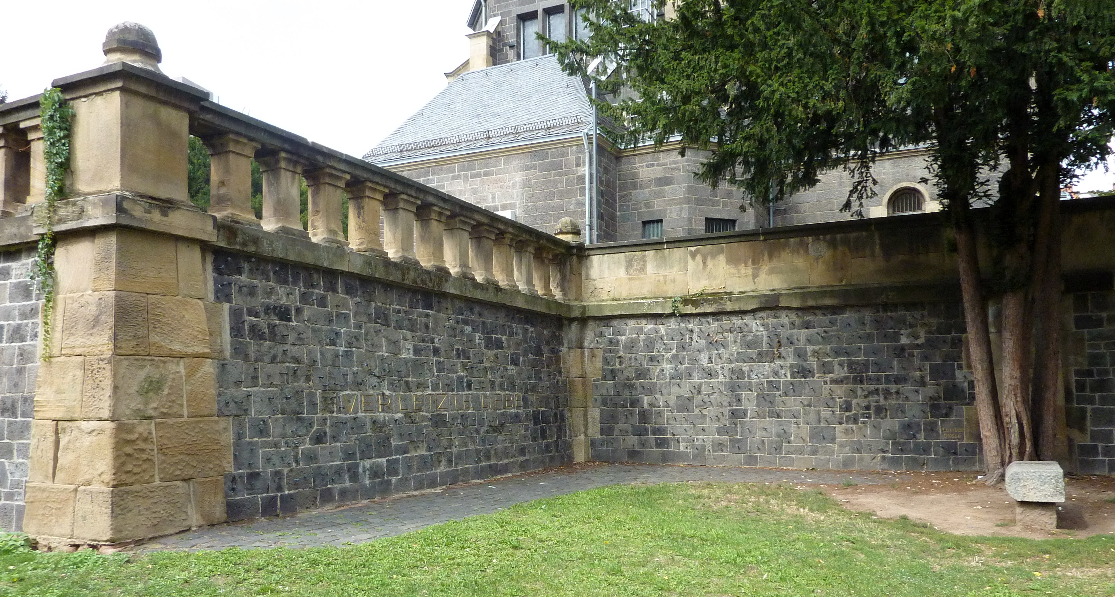 Frankfurt/M., Germany: The AIDS Memorial Verletzte Liebe (“wounded love”), designed by artist Tom Fecht, in the churchyard of St. Peter’s. Every nail in the wall represents a person in Frankfurt who died from AIDS. This photo of copyrighted artwork is published by the terms of German Panoramafreiheit (freedom of panorama, FoP).